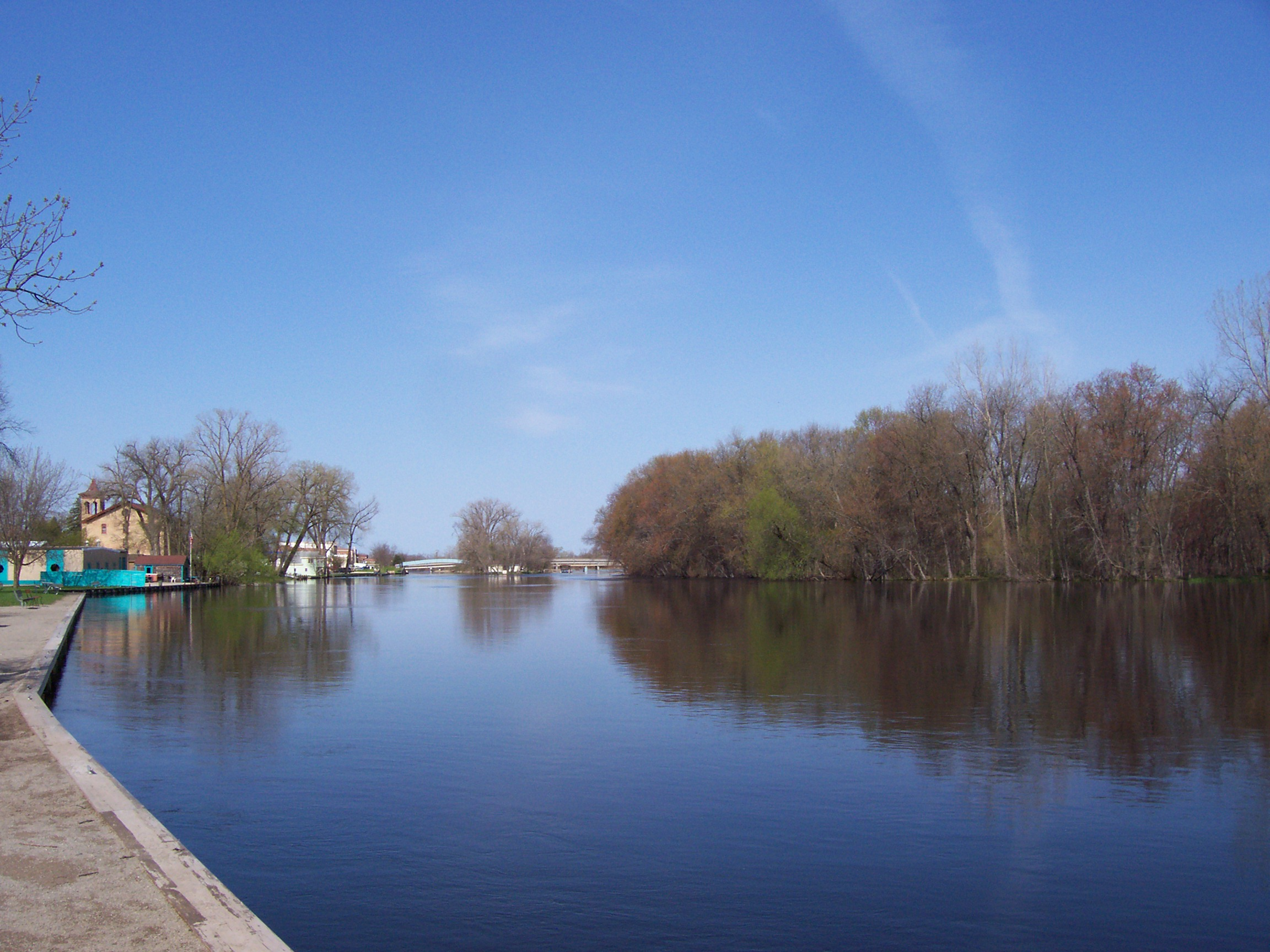 Looking west at the Fox River (Wisconsin) in downtown Omro, Wisconsin, USA just off Wisconsin Highway 21.